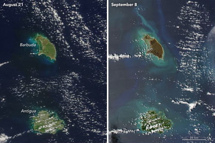 Satellite image of Antigua and Barbuda, before and after Hurricane Irma, illustrating the damage done by Hurricane Irma to Barbuda's vegetation.